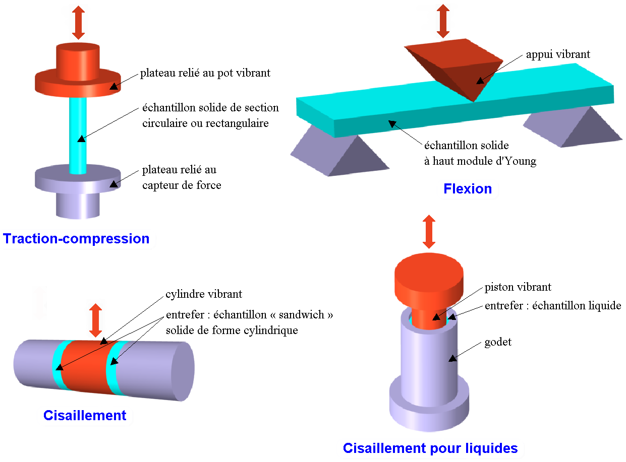 Some examples of mechanical trials involving the three strain types used with a Viscoanalyzer (a device by Metravib Instruments). Schematised tests are: tension-compression with parallel plates, three-point bending, plan shear with a double gap and annular pumping.